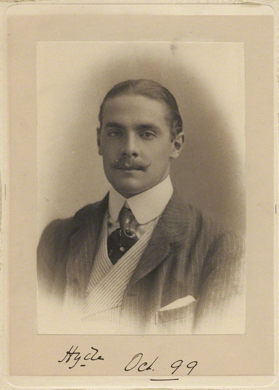 George Herbert Hyde Villiers in October of 1899 by an unknown photographer, vintage print on card mount